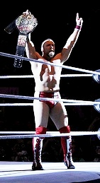 world heavyweight champion daniel bryan